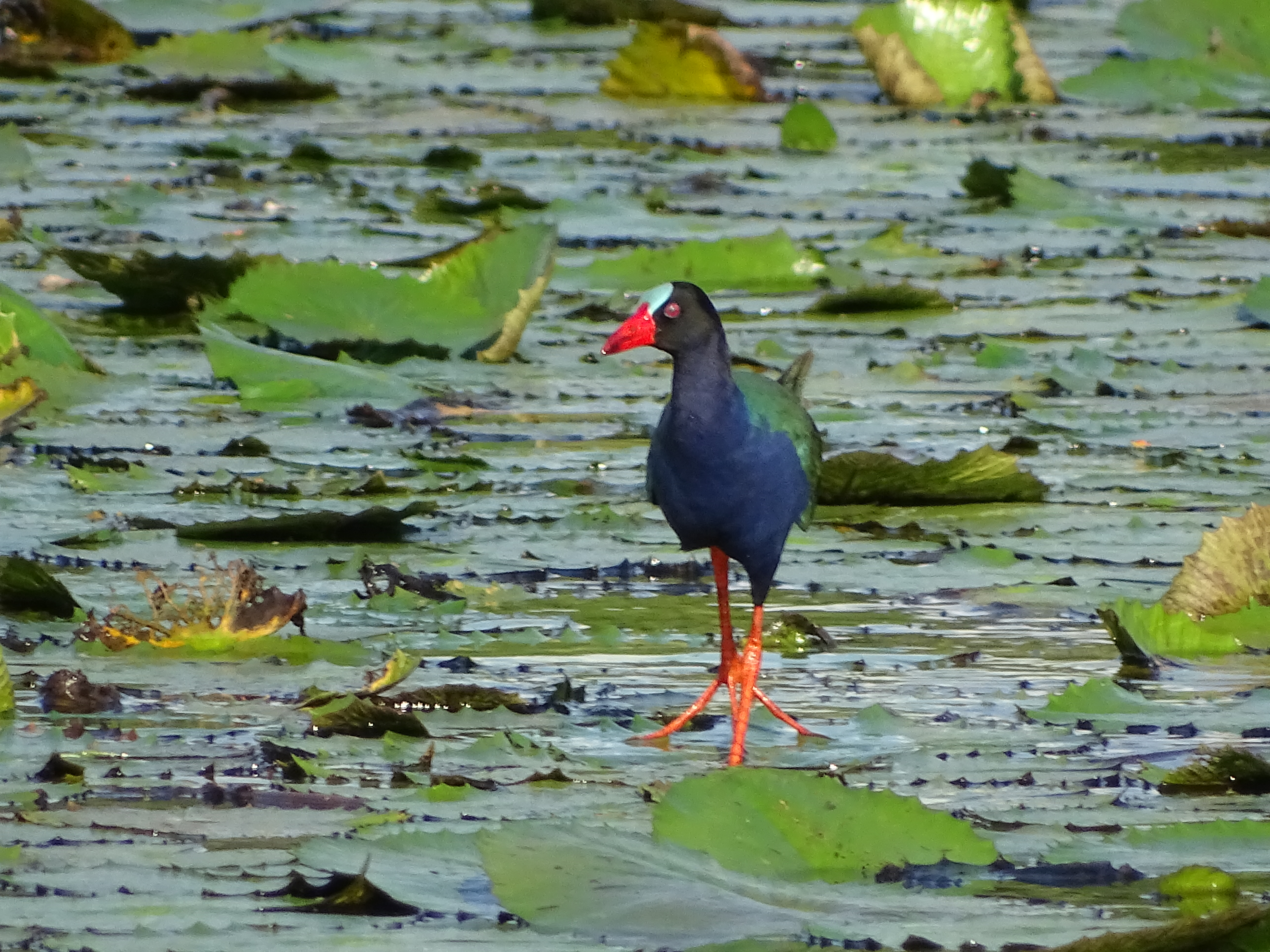 Omnivorous, it feeds on flowers, seeds, leaves, fruits, worms, molluscs, crustaceans, insects, spiders, small fish and their eggs. Allen's talves are pretty secret birds. According to the little information that has been collected in Africa, they are mostly observable during the first two hours of the day, after which they retreat under the thick cover. Throughout their area, they are considered erratic, ie intermittent or irregular inhabitants. They swim willingly, but if they feel in danger, they run away under cover, head down and tail up, showing off their underside caudals. When they take off, their flight is brief and we see their long legs and their long fingers dangling behind the tail. The nest is a building of grass and reeds in the shape of a ball topped with a dome. It is usually suspended at a low height above the water. It is sometimes even a floating nest in which the female lays 2 to 5 eggs. There is no information on incubation and nesting time. It is assumed that, as with most rallids, pups are nidifuges. This image was taken in the classified forests of Upper Ouémé in the north of the country